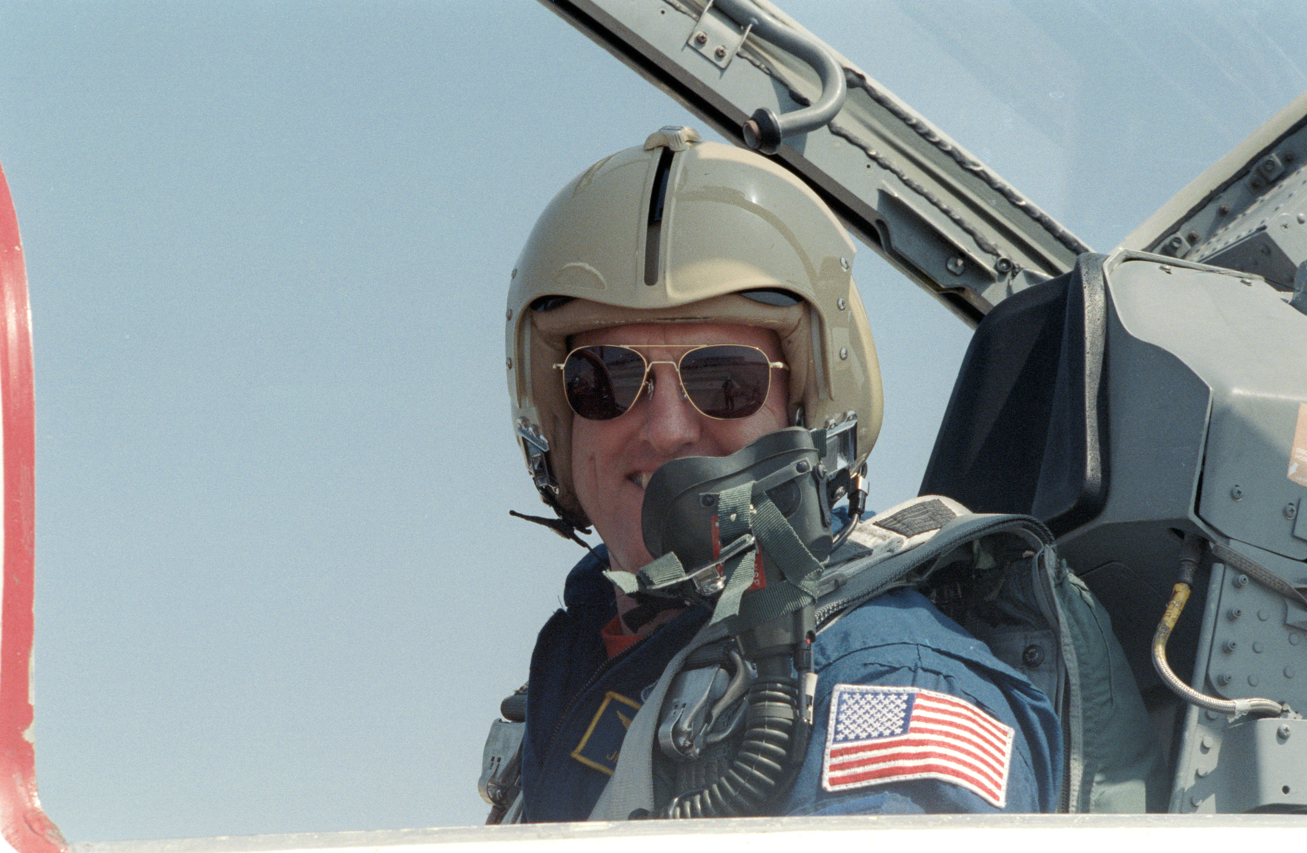 (March 10, 1989) Misison Specialist James Buchlie prepares for departure from Ellington Field to kennedy Space Center for Space Shuttle Discovery's STS-29 mission. Born on June 20, 1945, Buchli was a mission specialist on STS-51C, STS-61A, STS-29, and STS-48. Image # : s29-s-004